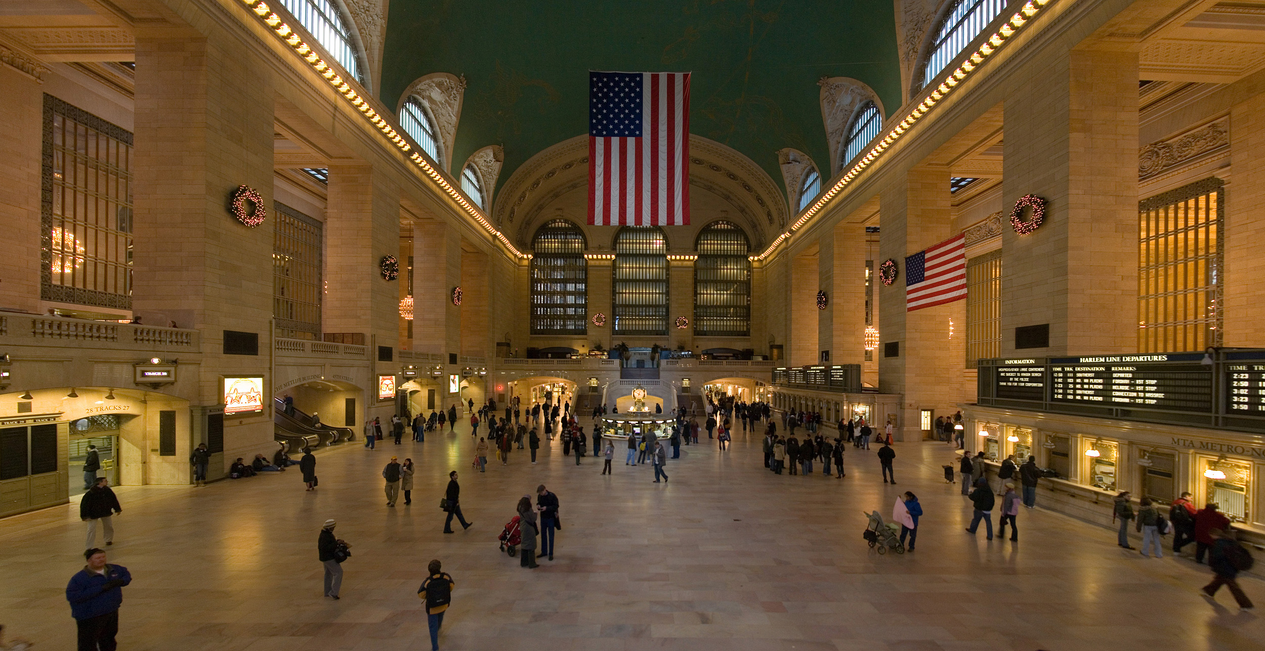 A 4 segment panorama of the Grand Central Station Main Concourse in New York City. Taken with a Canon 5D and 24-105mm f/4L IS lens by myself. This image is a rectilinear projection of the original panorama submitted to Commons here.